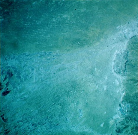 Lake Callabonna from space. Image courtesy of the Image Science & Analysis Laboratory, NASA Johnson Space Center. Image was cropped. For original and above. Mission: STS51A Roll: 47 Frame: 71 Mission ID on the Film or image: S85 19 Country or Geographic Name: AUSTRALIA-SA Features: L.CALLABONNA,STURT DESER Center Point Latitude: -29.5 Center Point Longitude: 141.0 (Negative numbers indicate south for latitude and west for longitude) Stereo: Yes (Yes indicates there is an adjacent picture of the same area) ONC Map ID: Q14 JNC Map ID